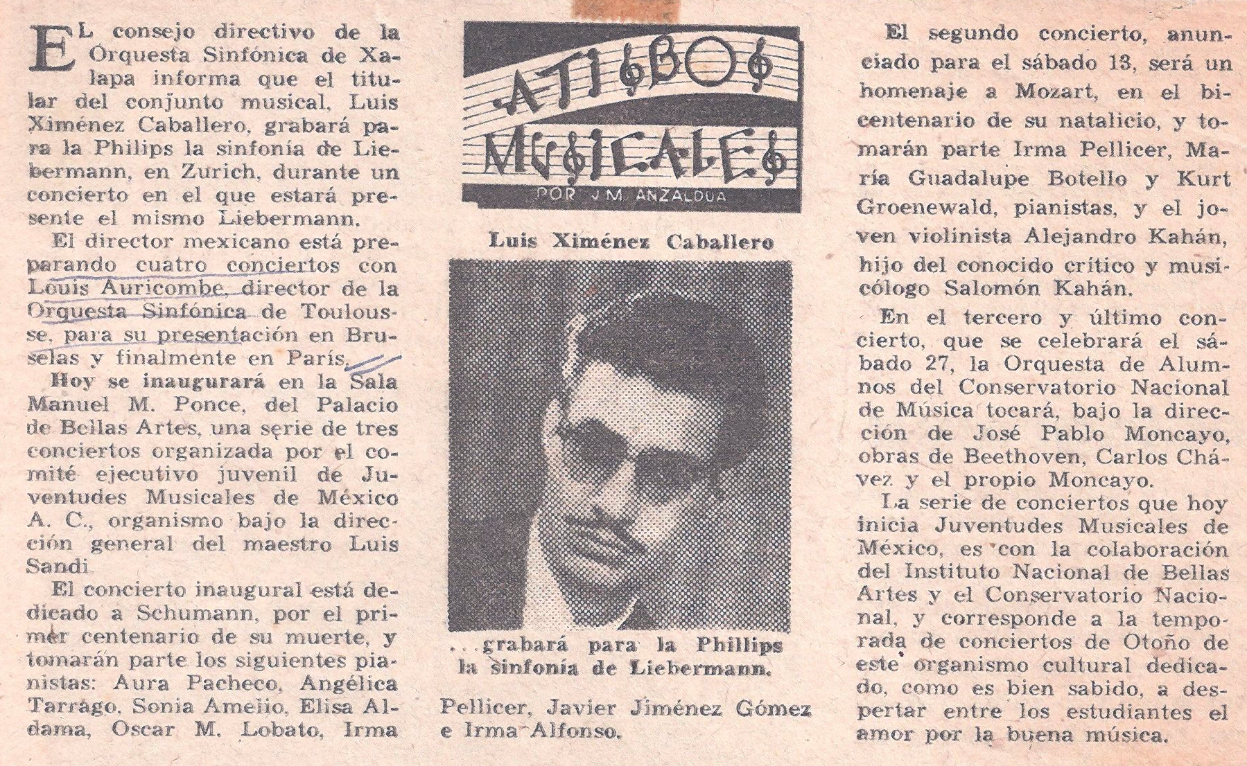 Newspaper clipping from Mexico announcing the recording in Zurich by Phillips Records of Rolf Liebermann's Symphony no. 1 conducted by Luis Ximénez Caballero